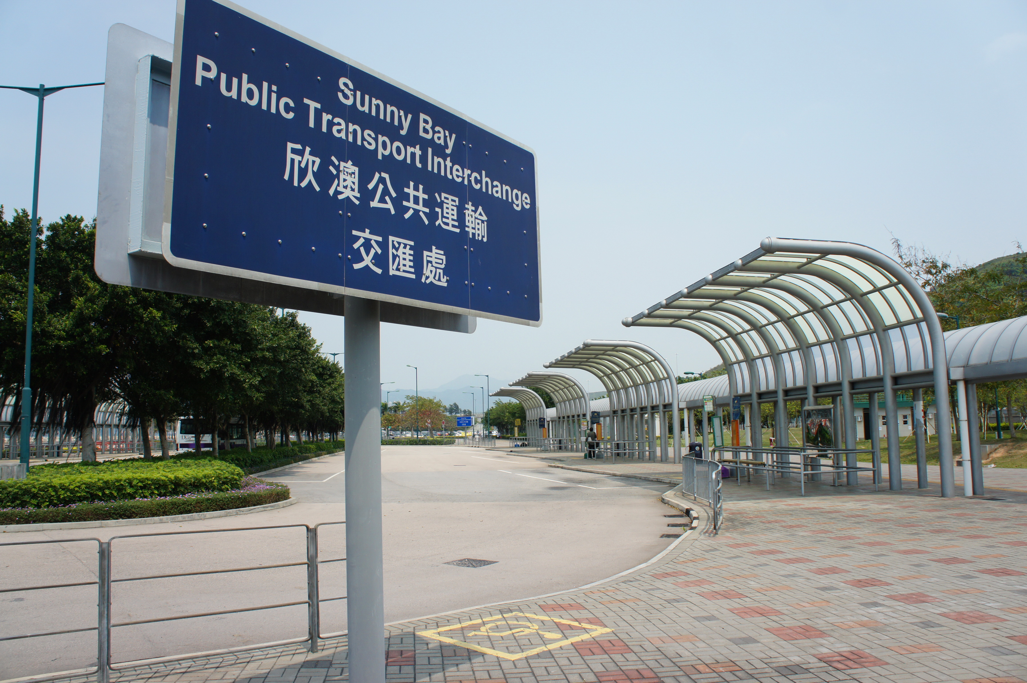 Sunny Bay Public Transport Interchange, Hong Kong.